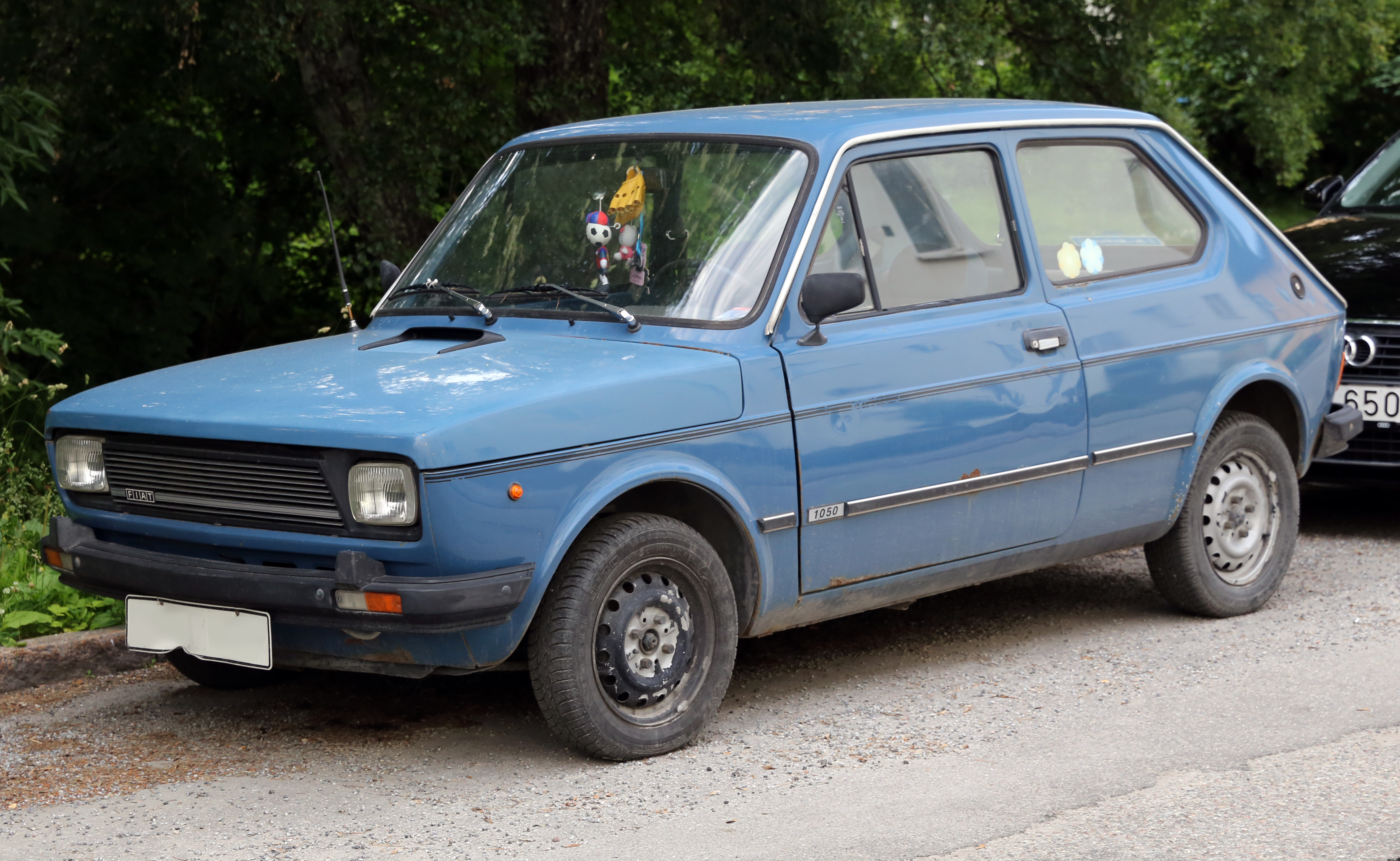 1981 Fiat 127 1050 L Special "Combi" (=hatchback).